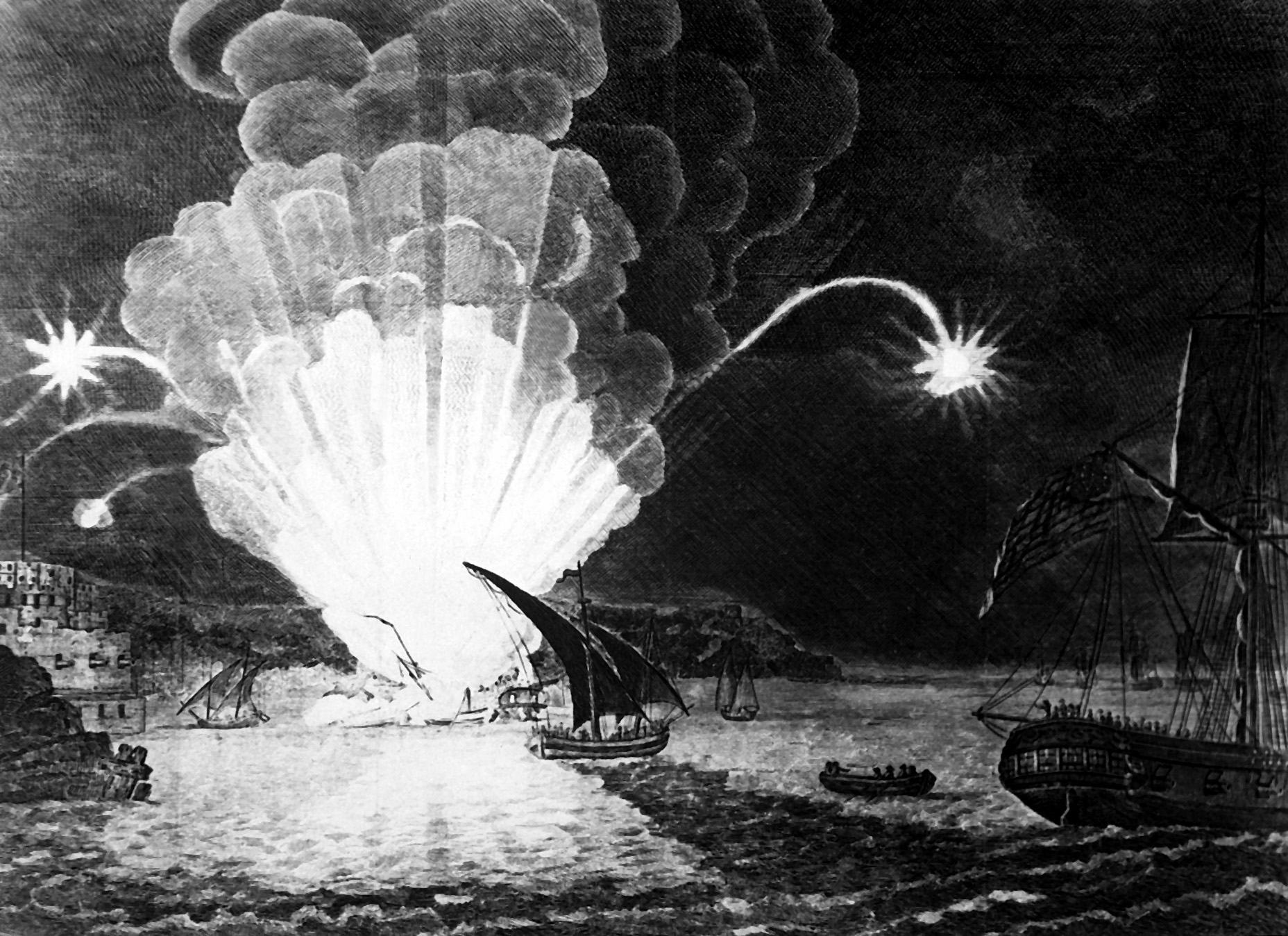 Blowing Up of the Fire Ship Intrepid commanded by Capt. Somers in the Harbour of Tripoli on the night of 4th Sepr. 1804. This . . . shows her blowing up with Somers and her entire crew. Copy of engraving, ca. 1810. (OWI) NARA FILE #: 208-LU-25F-10 WAR & CONFLICT BOOK #: 74